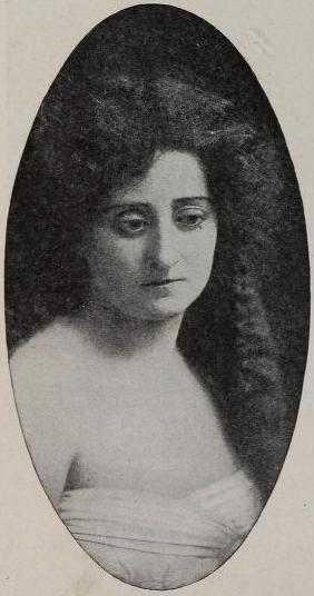 A young white woman with voluminous curly hair, wearing a strapless bodice.